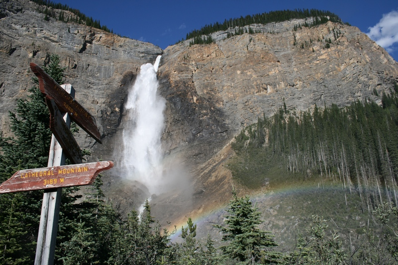 Takakkaw waterfall (second in Canada) in Yoho NP